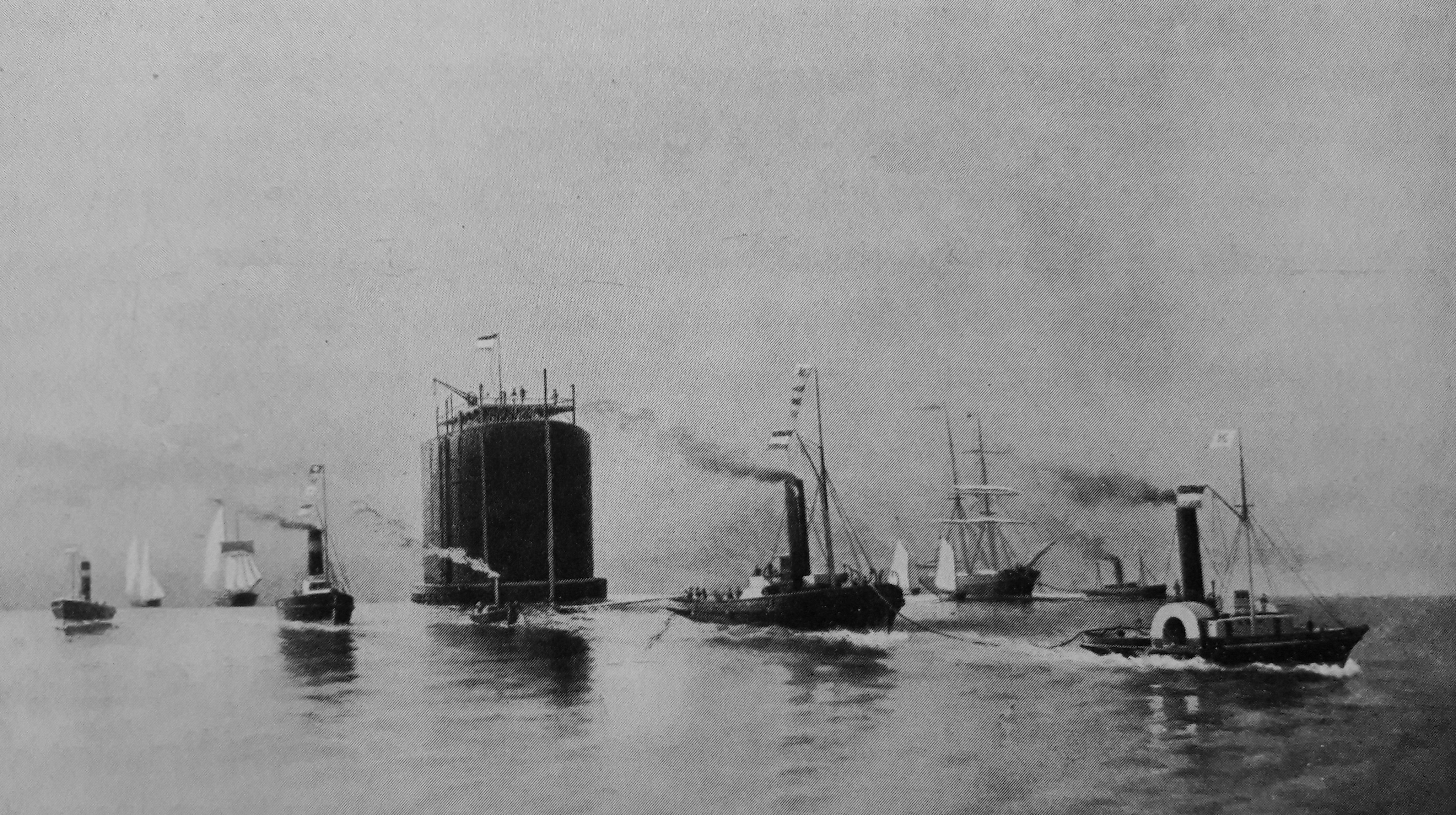 Lighthouse "Roter Sand" 1885